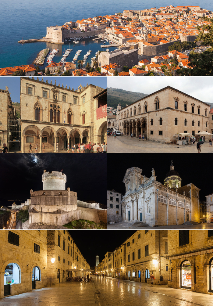 This picture is a montage of major Dubrovnik landmarks. The montage is made of images available on Wikipedia Commons.